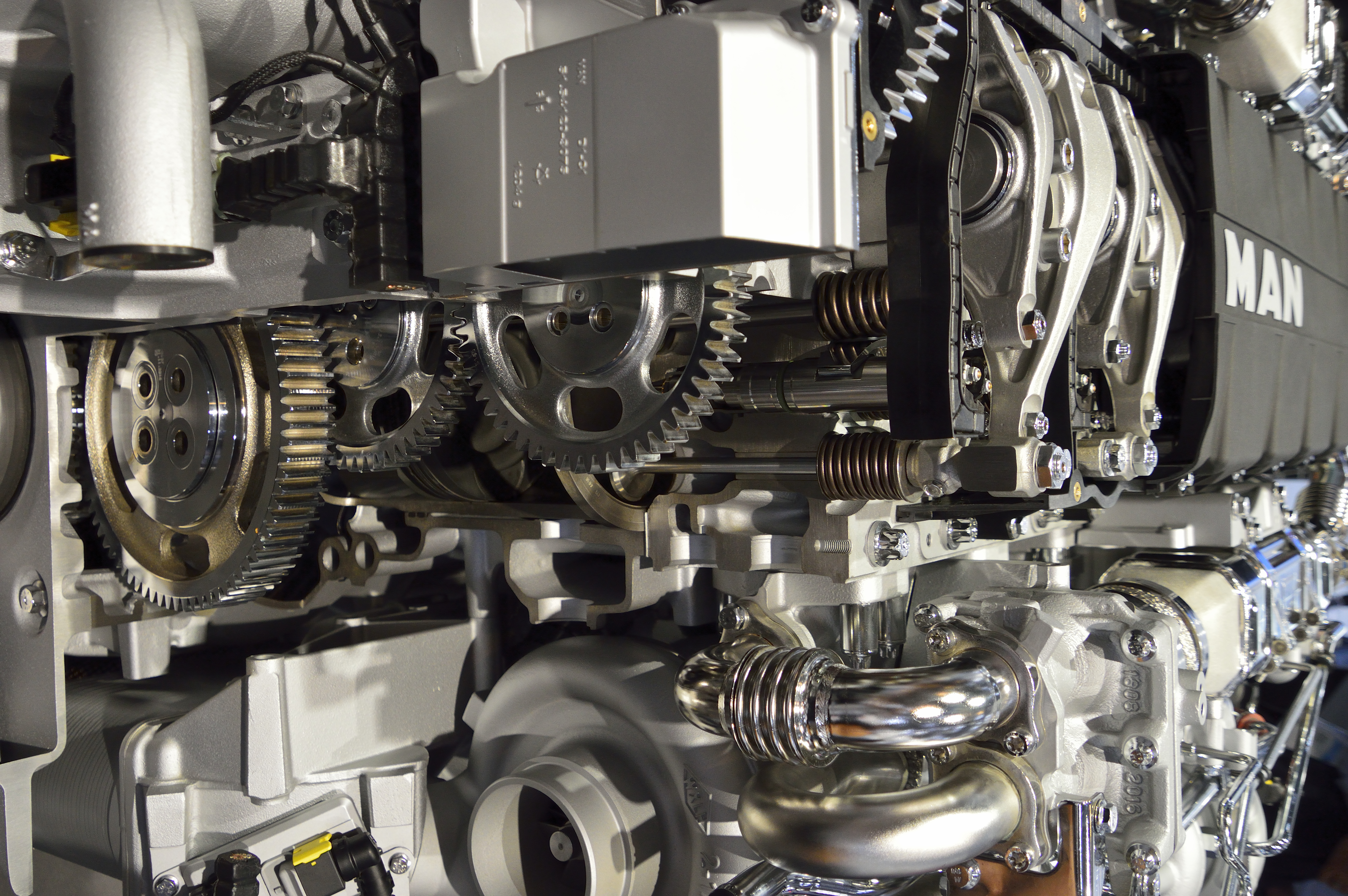 Detail view on MAN six-cylinder truck-engine DF 3876 LF; straight diesel engine with Euro 6. Max. output: 397 - 471 kW (540 - 640 hp), 15.2 litre. Seen at IAA 2018.